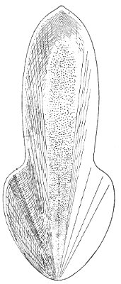 Trachyteuthis hastiformis fossilised cuttlebone.